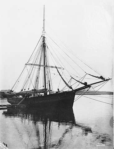 Roald Amundsen's ship Gjøa, built in 1872 Norsk (bokmål): Roald Amundsens ishavsskute «Gjøa», bygd i 1872.